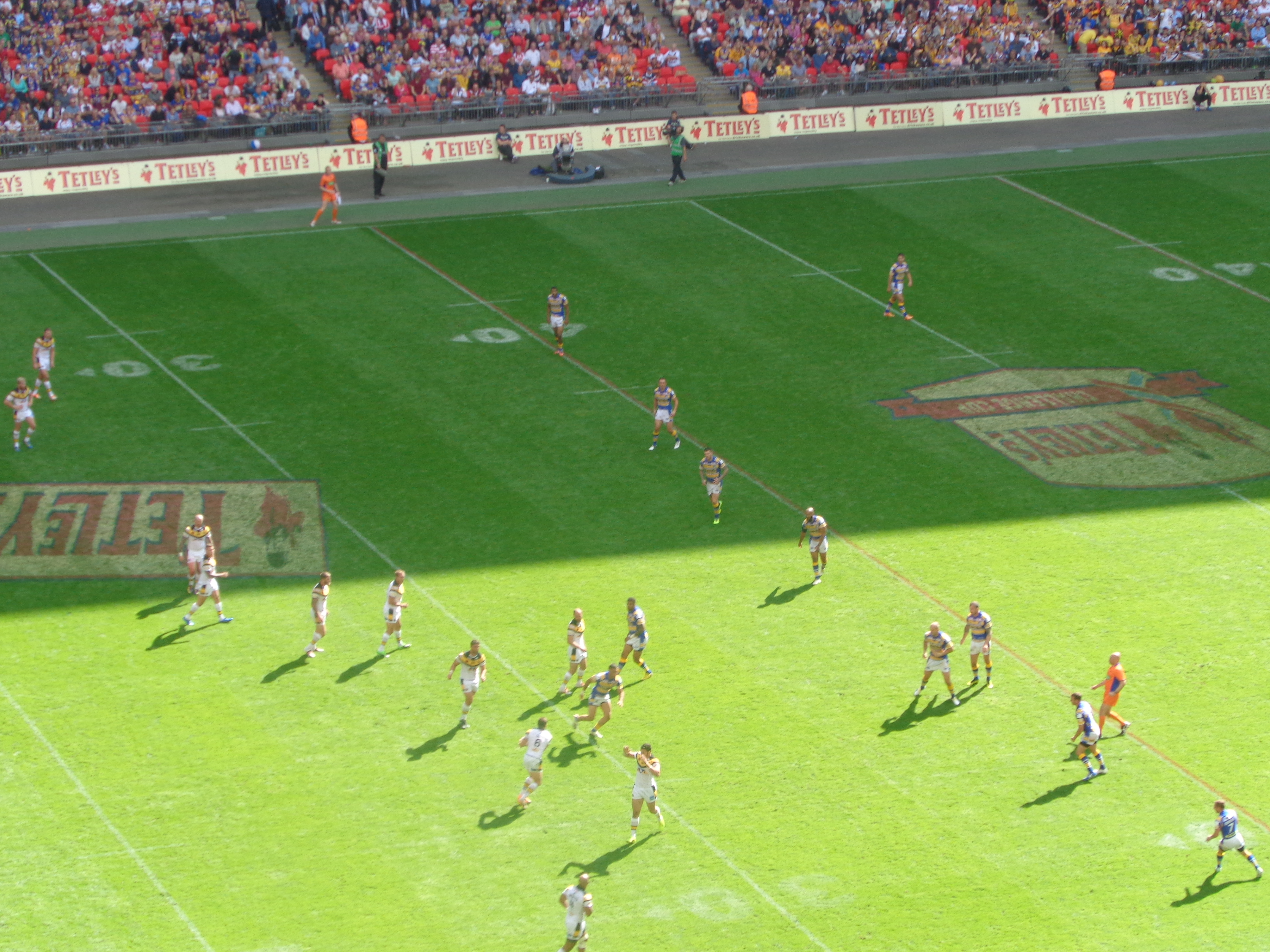 Gameplay during the 2014 Challenge Cup Final between Leeds Rhinos and Castleford Tigers. The match was won 23-10 by the Leeds Rhinos with Ryan Hall taking the Lance Todd Trophy and was kicked off on 3pm on Saturday the 23rd of August 2014.